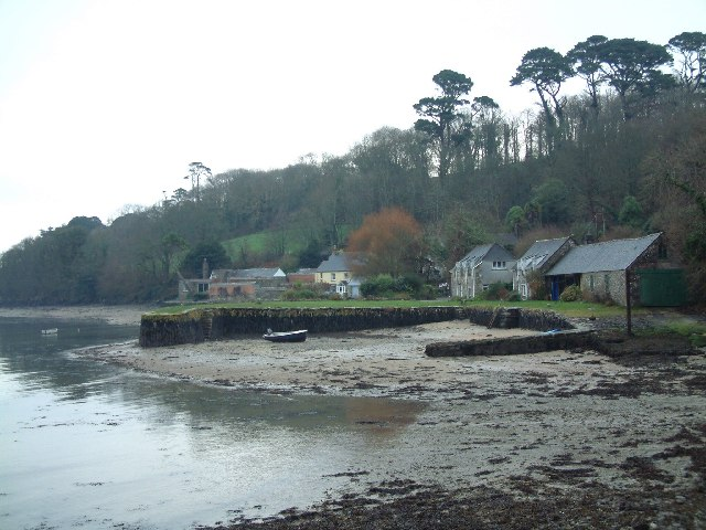 Helford old harbour. No longer used, this harbour lies on the south side of the river, at Treath